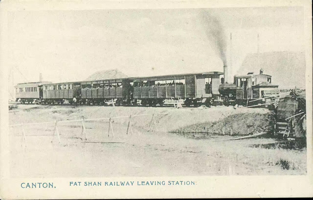 Fat Shan Railway Leaving Station.